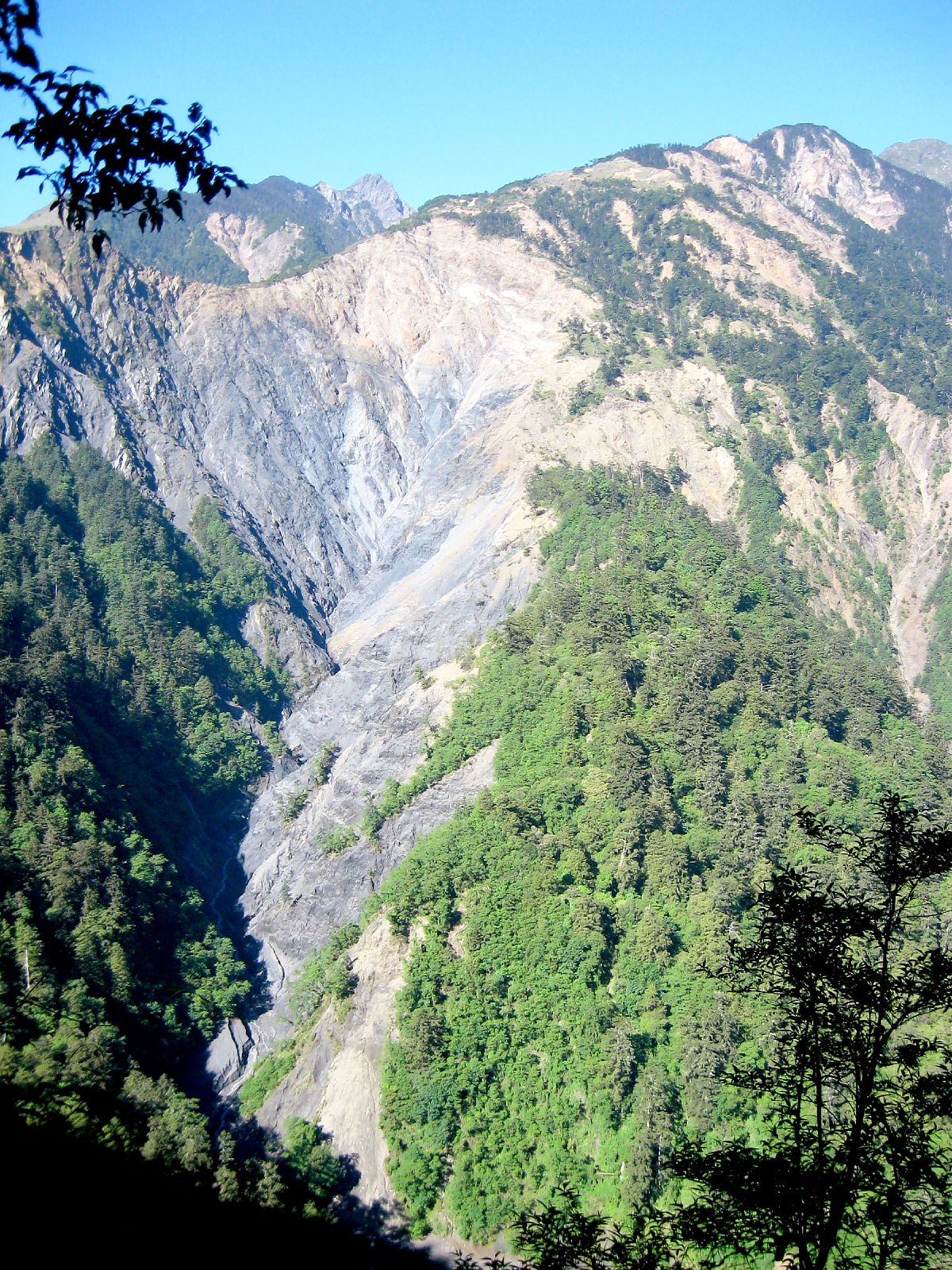 Jinmentong Cliff中文（中国大陆）: 金门峒断崖